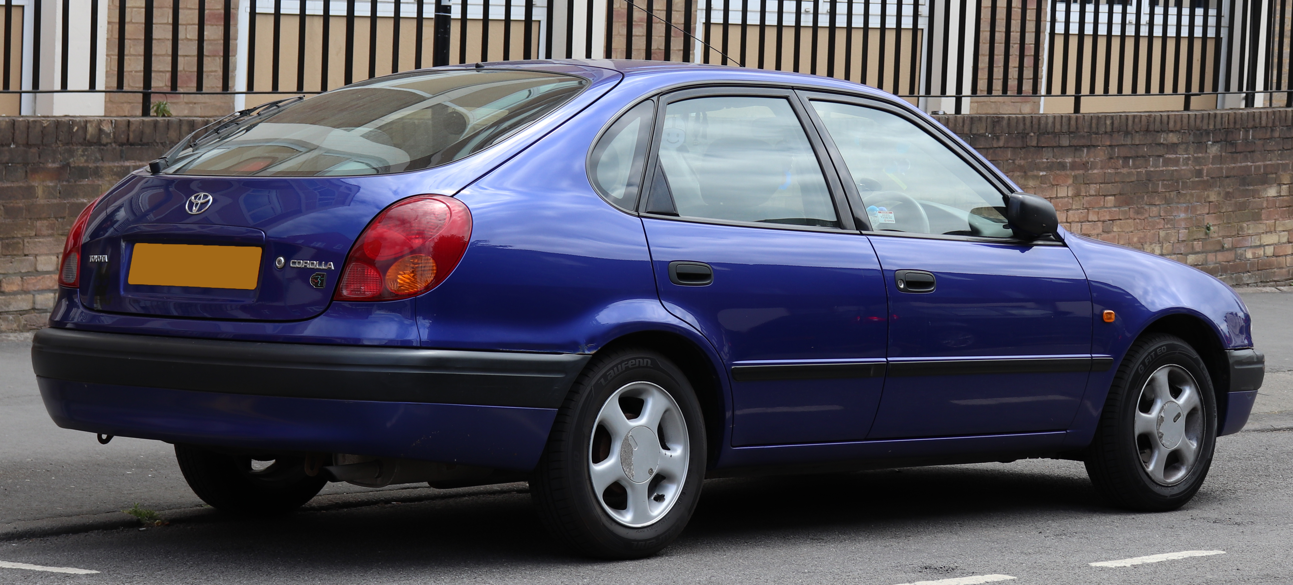 1998 Toyota Corolla Sportif 1.3 Rear Taken in Leamington Spa